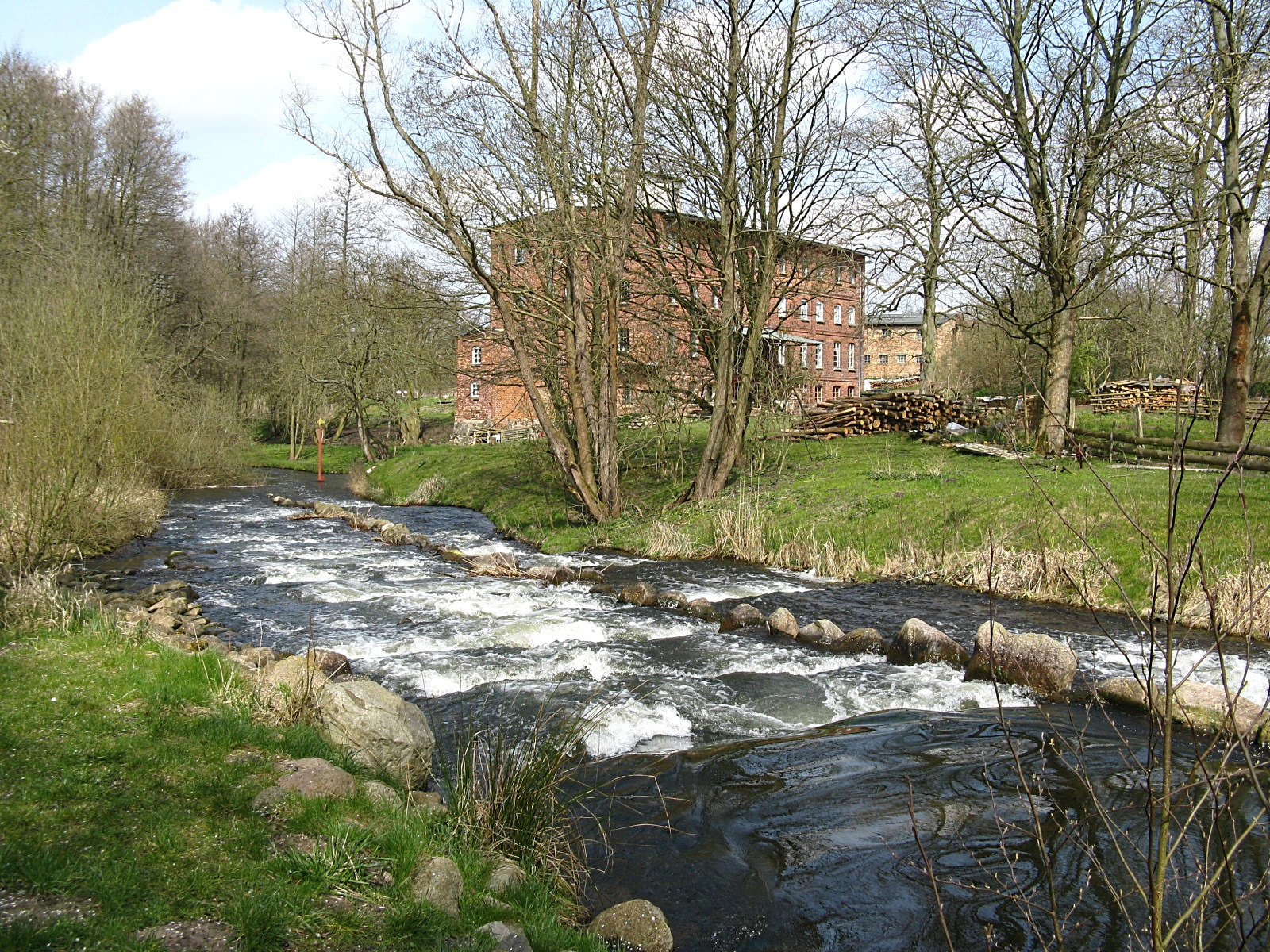 Fish ladder at a former water mill on Nebel river in Kölln, Mecklenburg-Vorpommern, Germany.